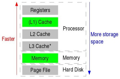 This diagram shows the components of a modern computer's memory, demonstrating how a computer uses a series of progressively larger but slower memory areas in order to store information.